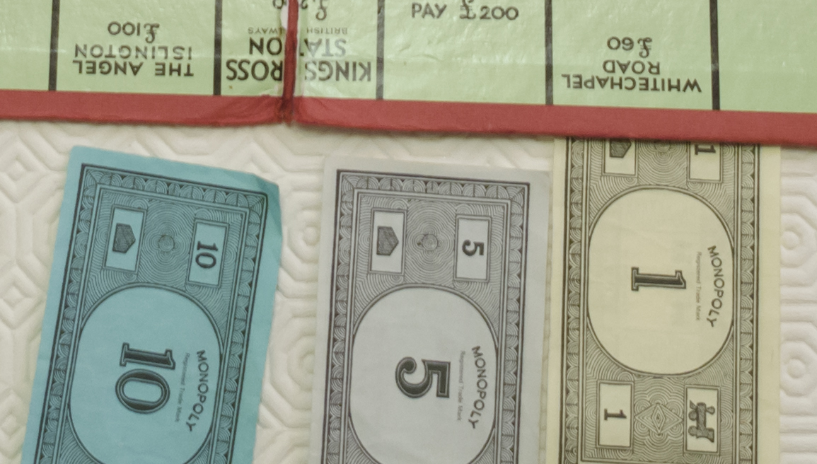 Board game Monopoly